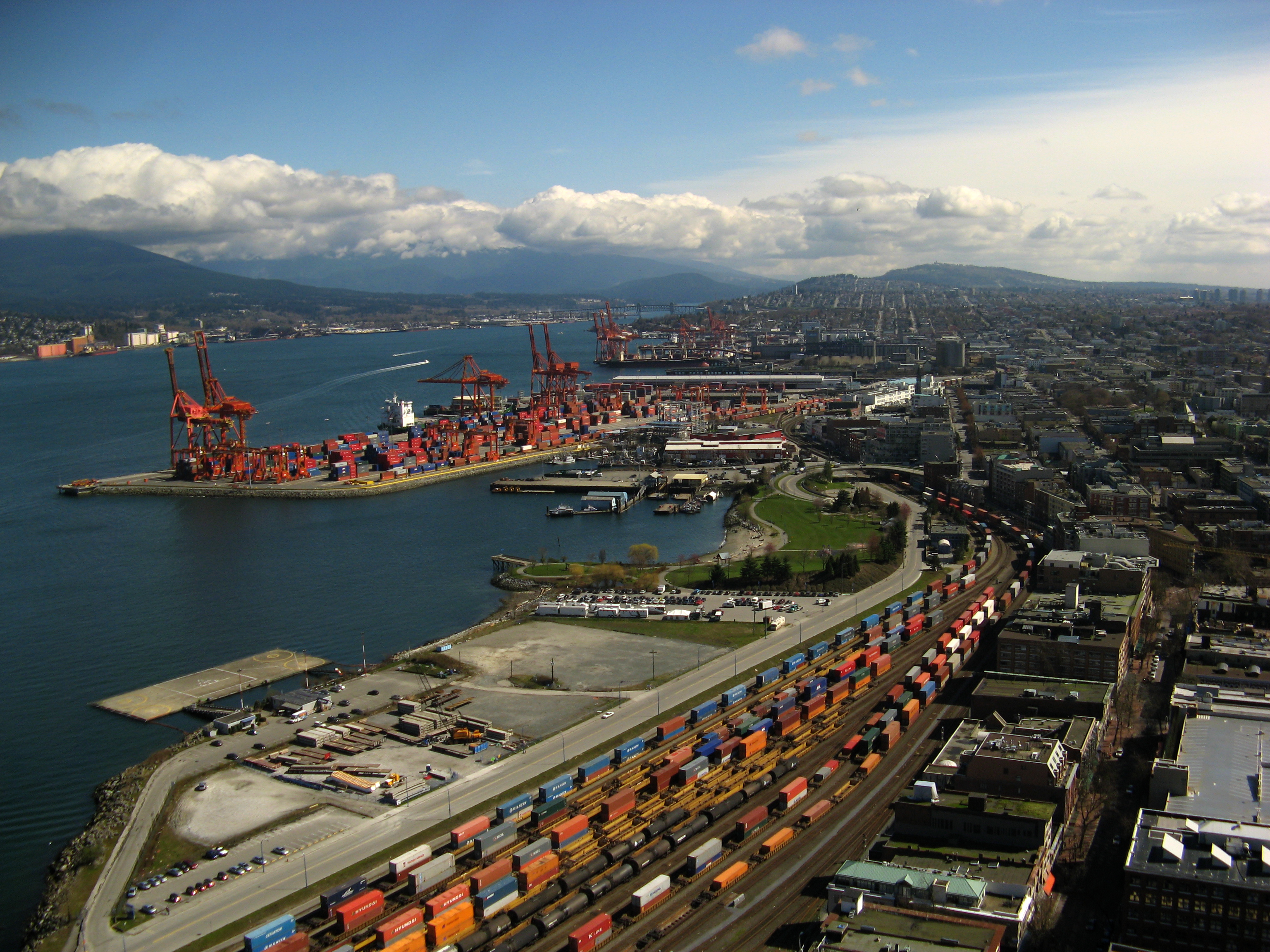 Vancouver's waterfront, taken from Harbour Centre Lookout, March 2007.